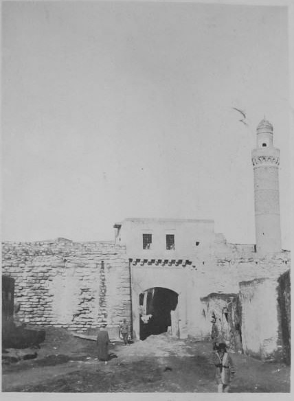 Gateway & Minaret, Mosul, Iraq, World War I, 1916-1919